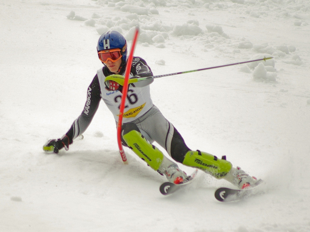 New Zealand alpine skier Ben Griffin during the Slalom run of the FIS Super Combined in Spital am Semmering on 11 March 2008.